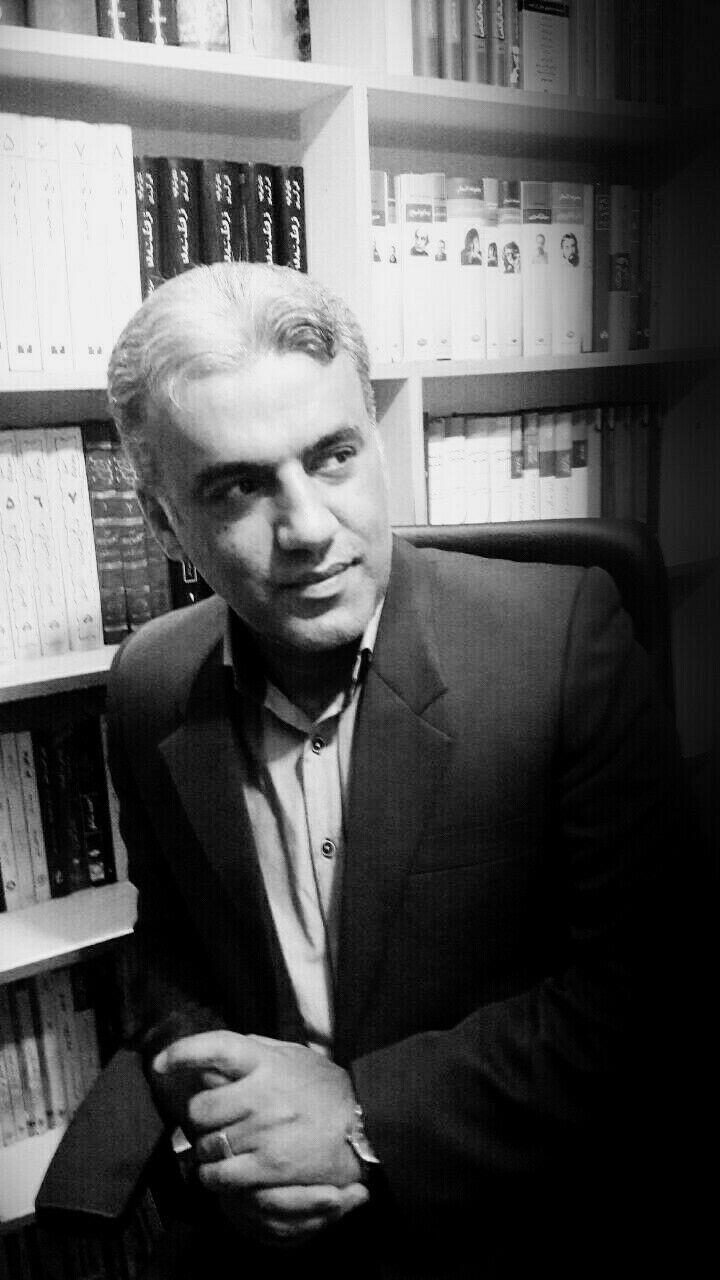 Farhad Rajabi